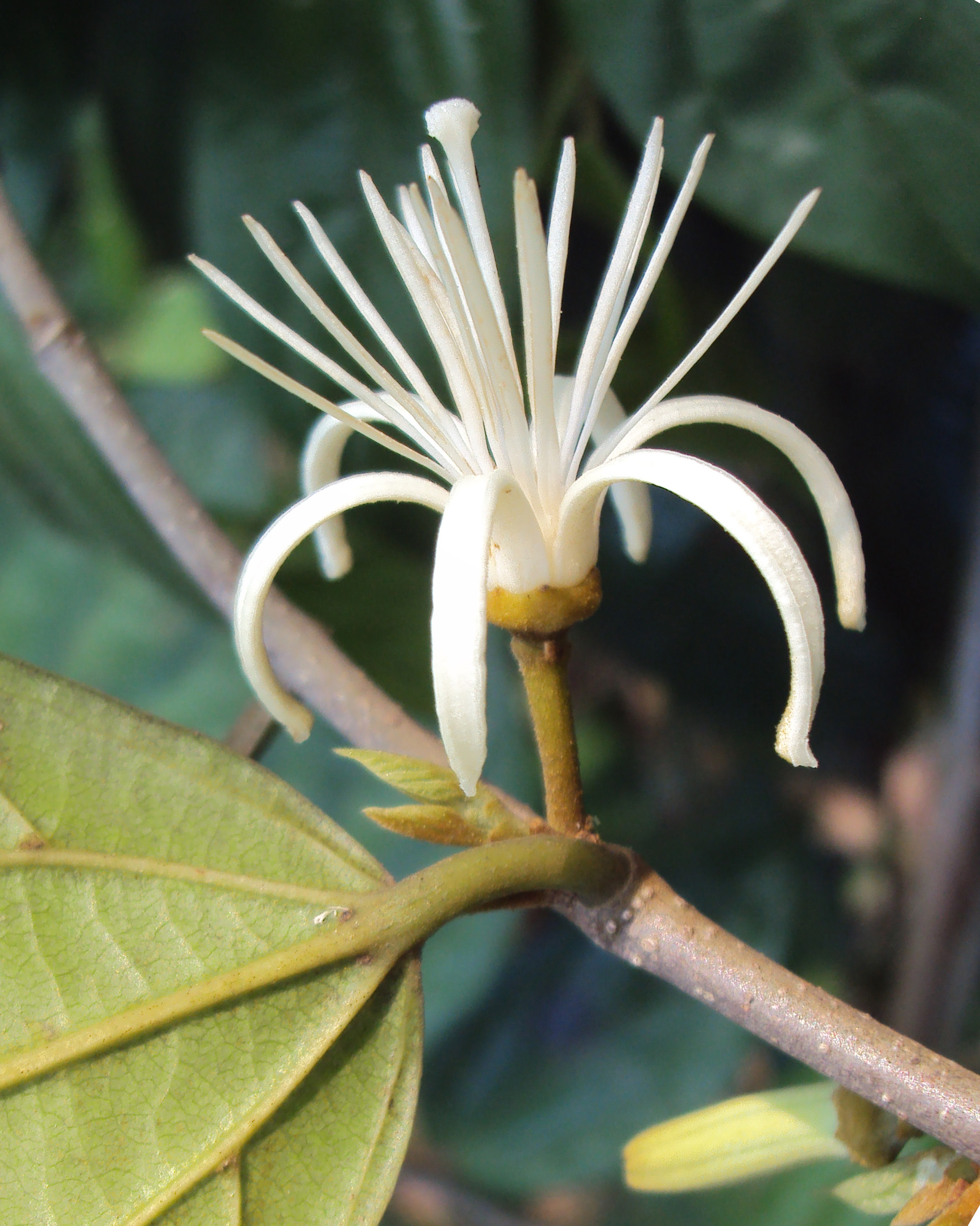 Alangium Salvifolium